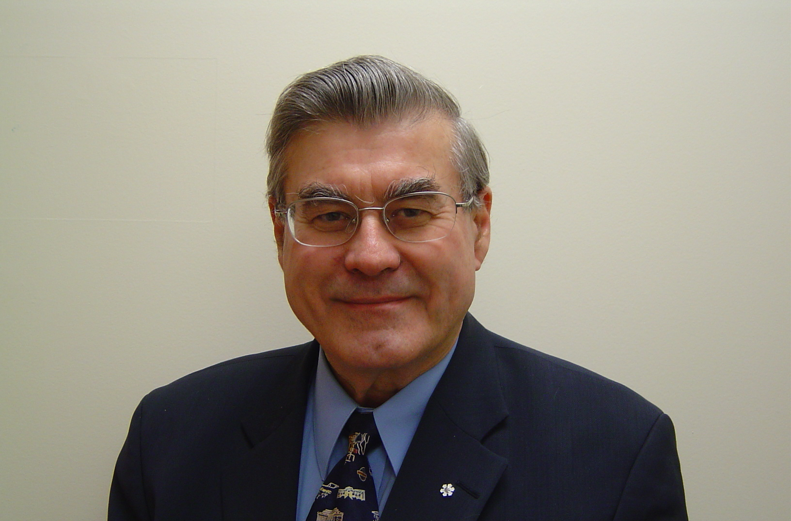 Lawrence Mysak in 2005 at CMOS Congress